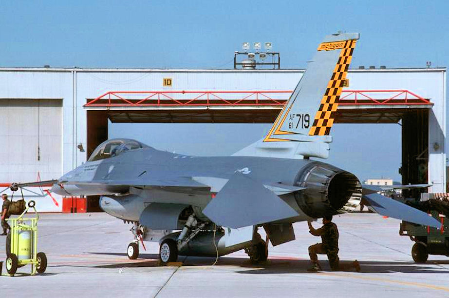 171st Fighter Squadron Michigan ANG F-16A 81-719